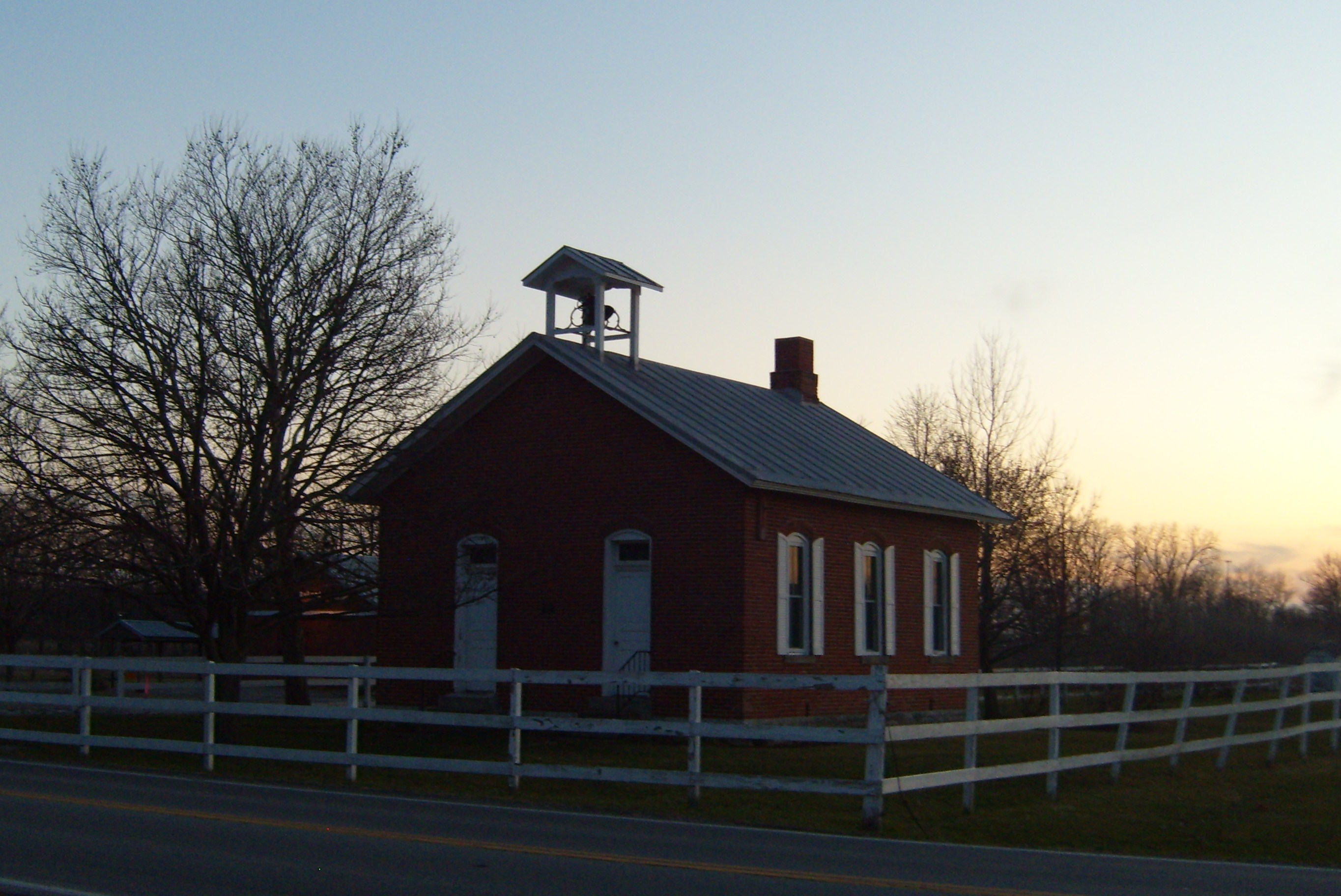 Front of the Marion Township School District No. 3, located at 8884 County Road 236 in in Marion Township, Hancock County, Ohio, United States, near the city of Findlay. Built in 1864, the schoolhouse is listed on the National Register of Historic Places.